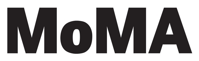 Museum of Modern Art logo